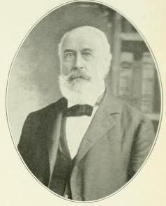 Portrait of Pennsylvania Chief Judge James P. Sterrett